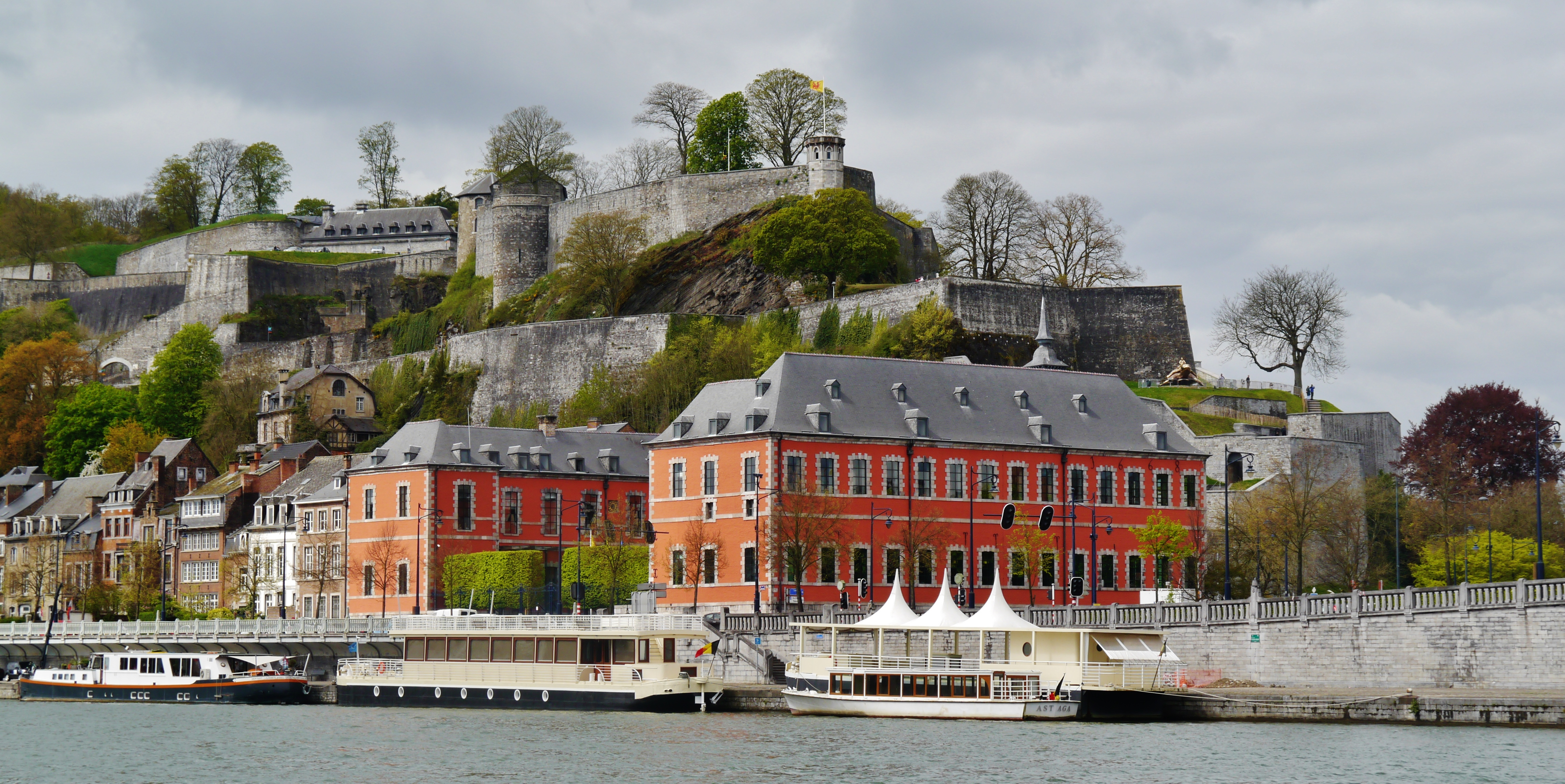 Citadel & Parliament of Wallonia, Namur, Province of Namur, Wallonia, Belgium